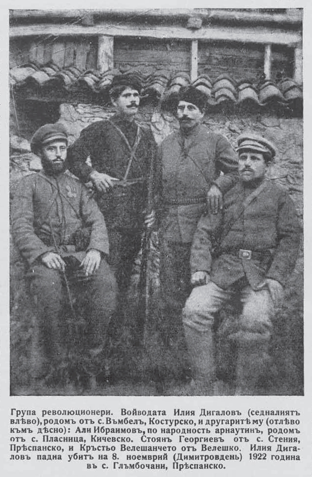 Members from IMRO Iliya Digalov (1890-1922), Ali Ibraimov, Stoyan Georgiev and Krastyo Veleshancheto